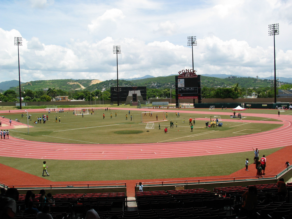 Inside of Paquito Montaner Stadium in Barrio Canas, Ponce, Puerto Rico